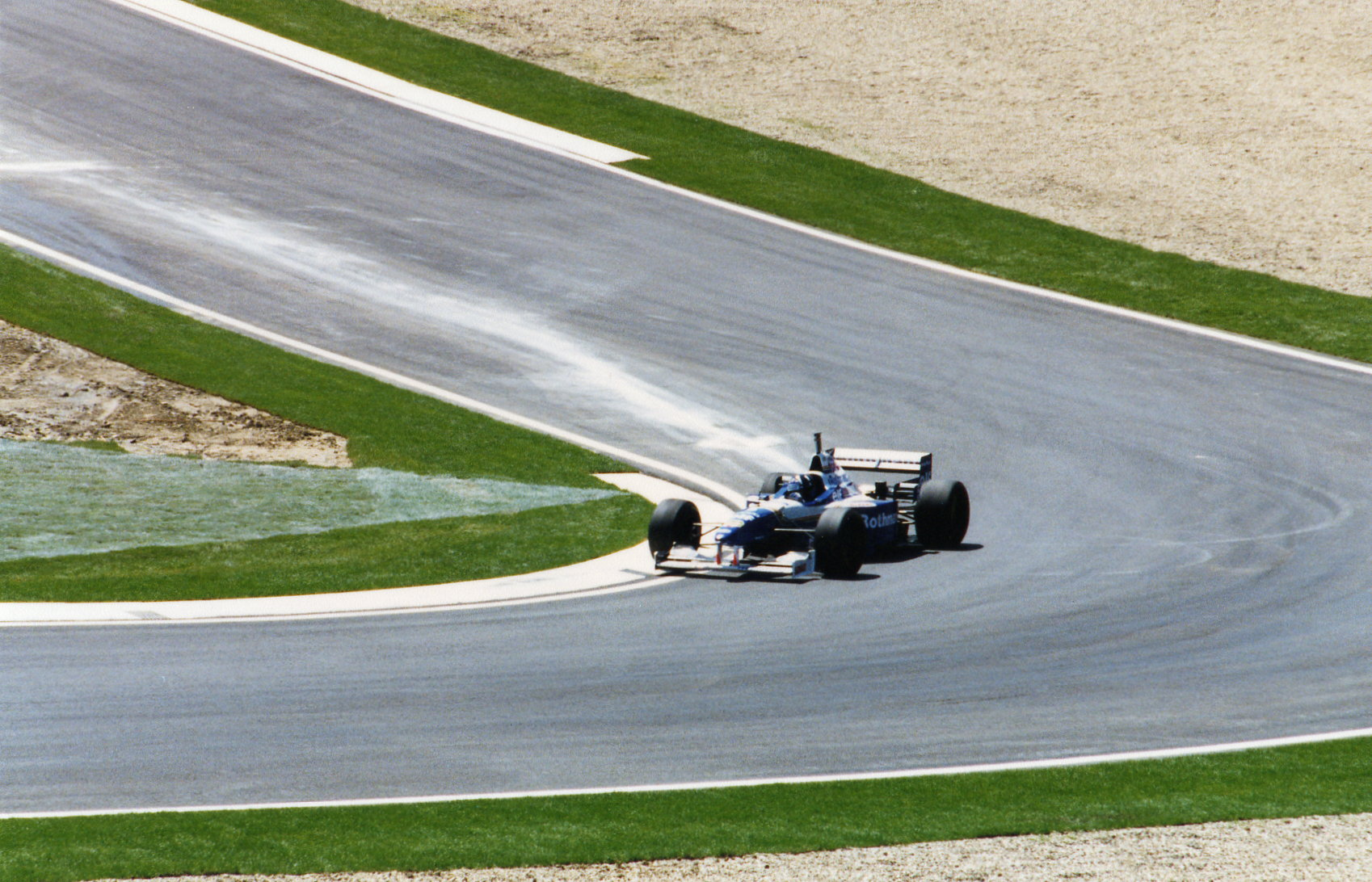 Damon Hill during free practice of 1996 San Marino Grand Prix